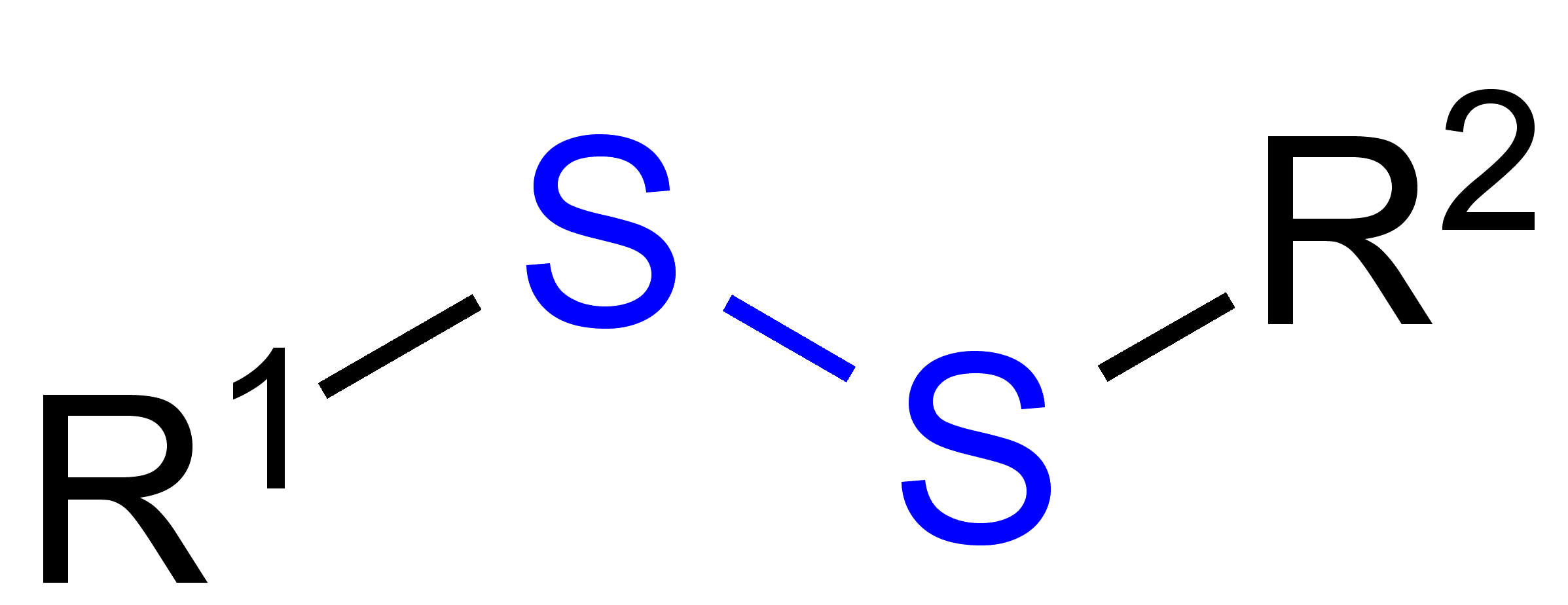 Disulfides_General_Formulae